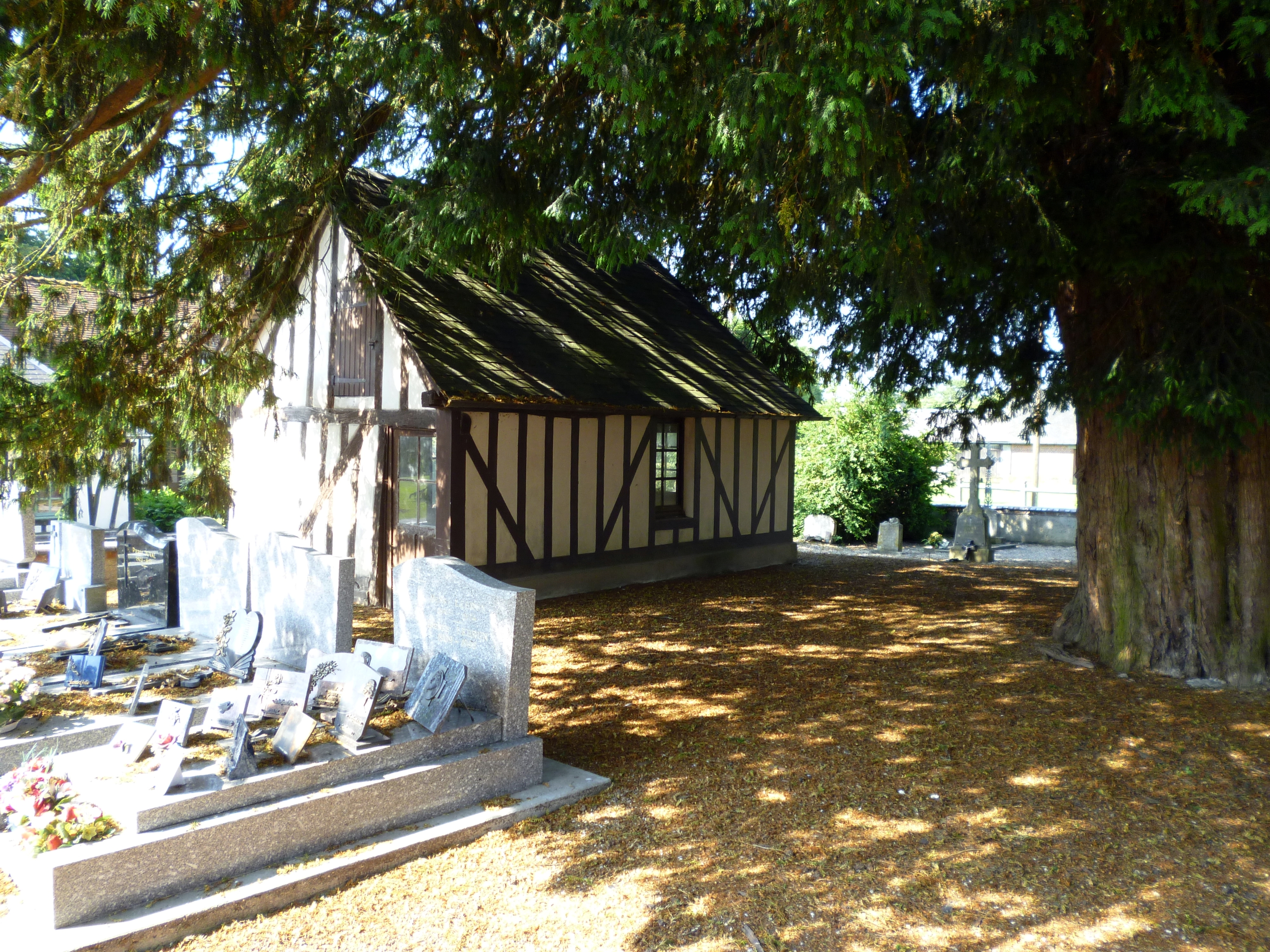 Graveyard of the church Saint-Ouen of Duranville. The yew tree is some hundred years old. To the left is the building of the Confrérie de charité (religious brotherhood that used to organise funerals).